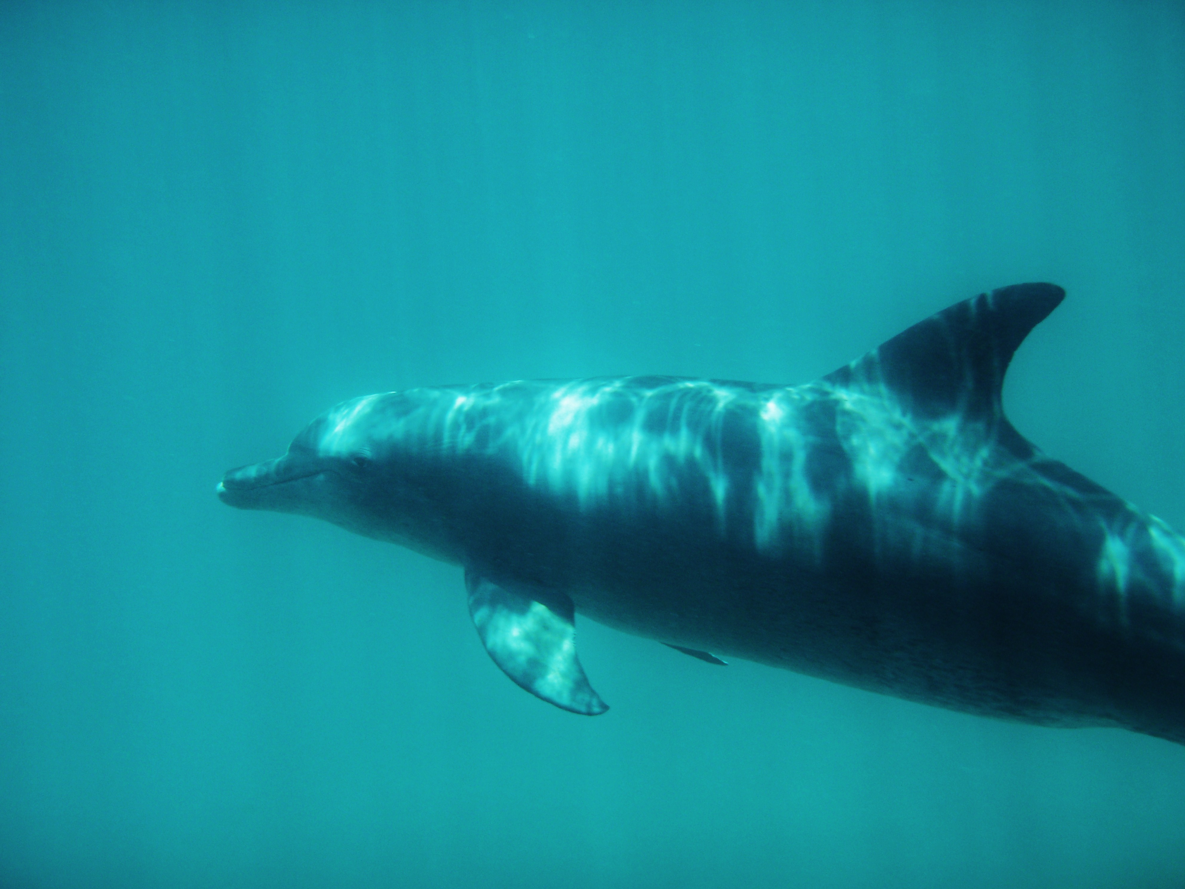 Swimming with Dolphins - Kisite-Mpunguti Marine National Park